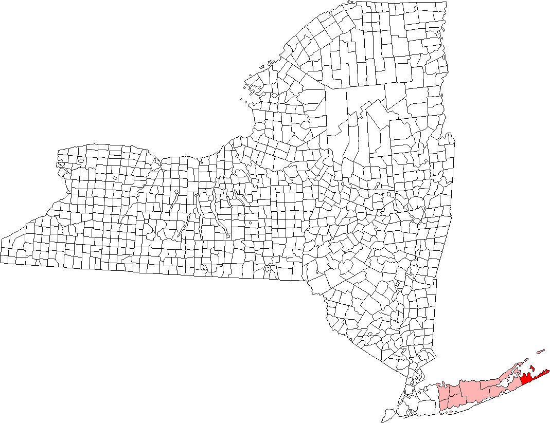 Location of East Hampton in Suffolk County, New York.